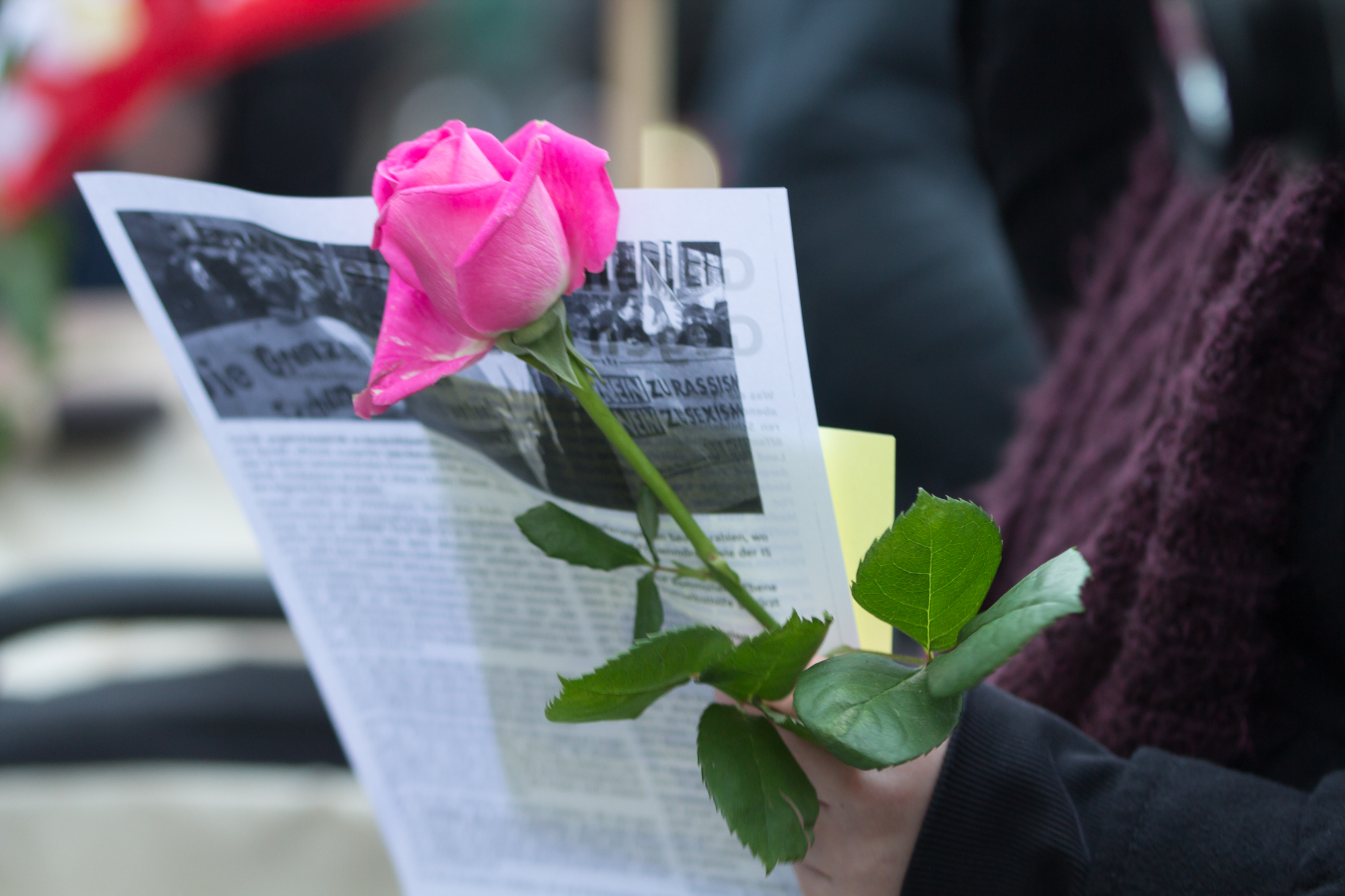 Rally “Syrians against sexism“ at Cologne Central Station, following the sexual assault incidents at New Year's Eve